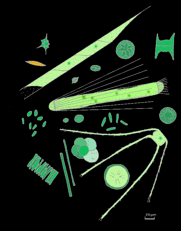 Phytoplankton